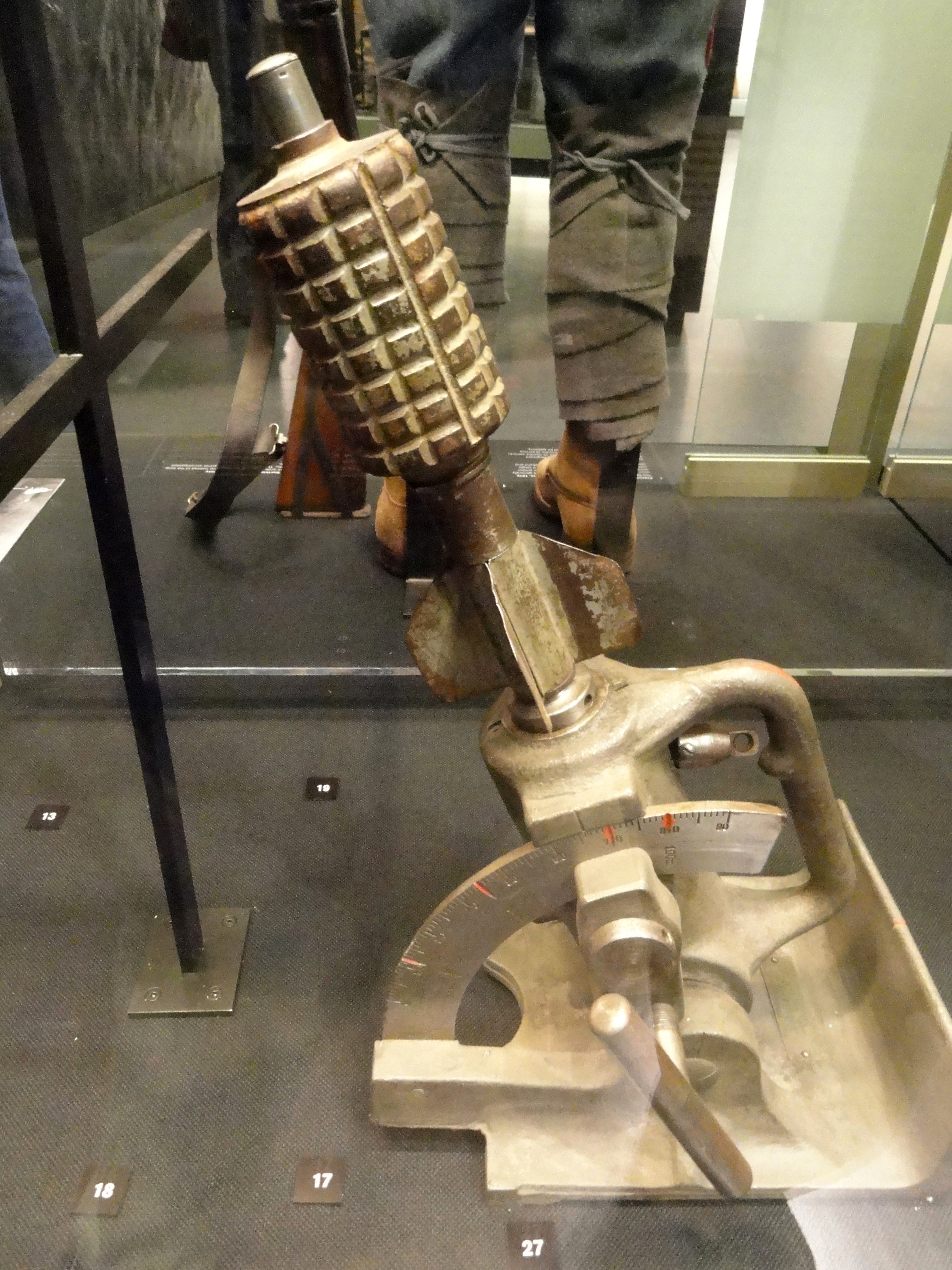 Hand grenade exhibit in the National World War I Museum at the Liberty Memorial, 100 W. 26th Street, Kansas City, Missouri, USA.